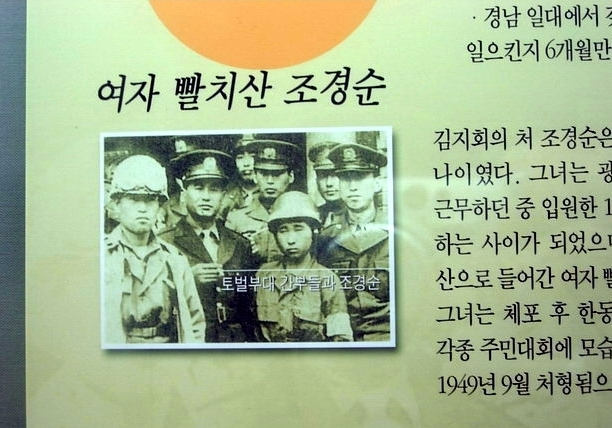 Jo, Kyung-Soon in 1949 : Wife of Kim, Ji-Hoe, a Partisan Leader of South Korea (생포된 김지회의 처 조경순과 토벌대)